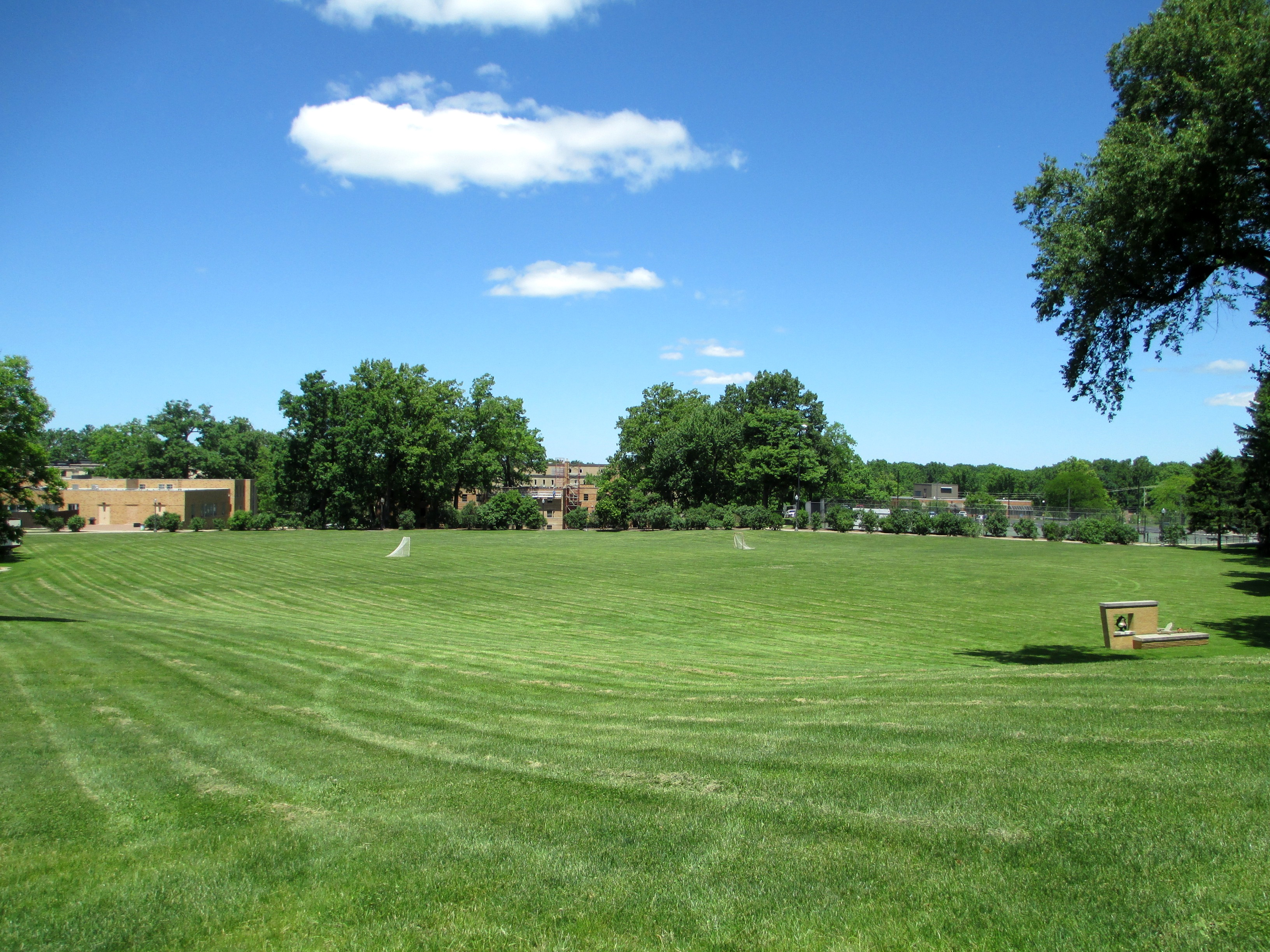 View looking northwest of The Commons on the campus of Kent State University in Kent, Ohio. The Commons were originally home of Rockwell Field, the first home of Kent State football. In 1970, it was a central site in the Kent State shootings. It was added to the National Register of Historic Places in 2010. The Victory Bell can be seen on the right.